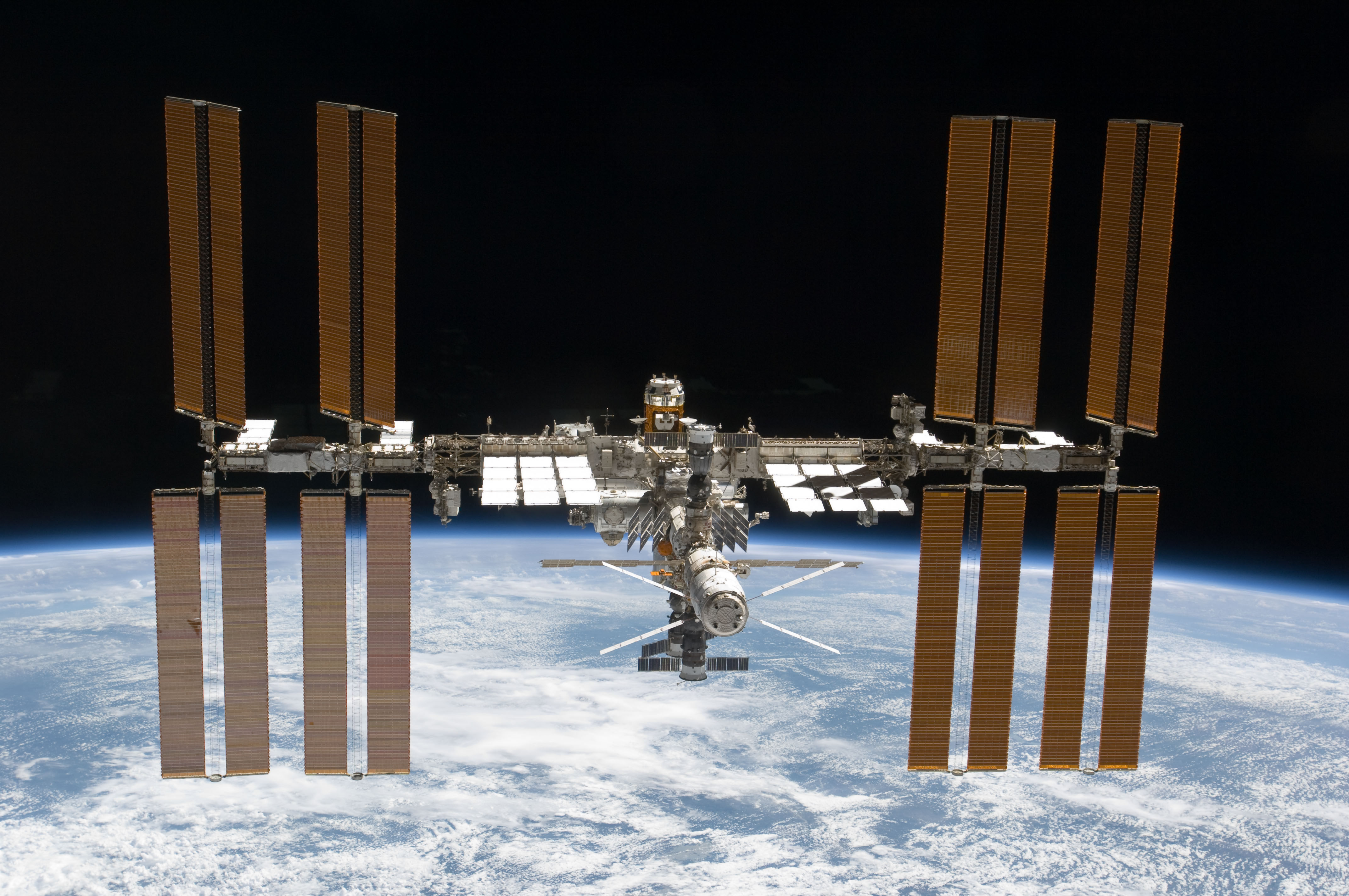 Backdropped against the blackness of spaec and clouds over Earth, the International Space Station is seen from Discovery as the two orbital spacecraft accomplish their relative separation on March 7 after an aggregate of 12 astronauts and cosmonauts worked together for over a week. During a post undocking fly-around, the crew members aboard the two spacecraft collected a series of photos of each other's vehicle.